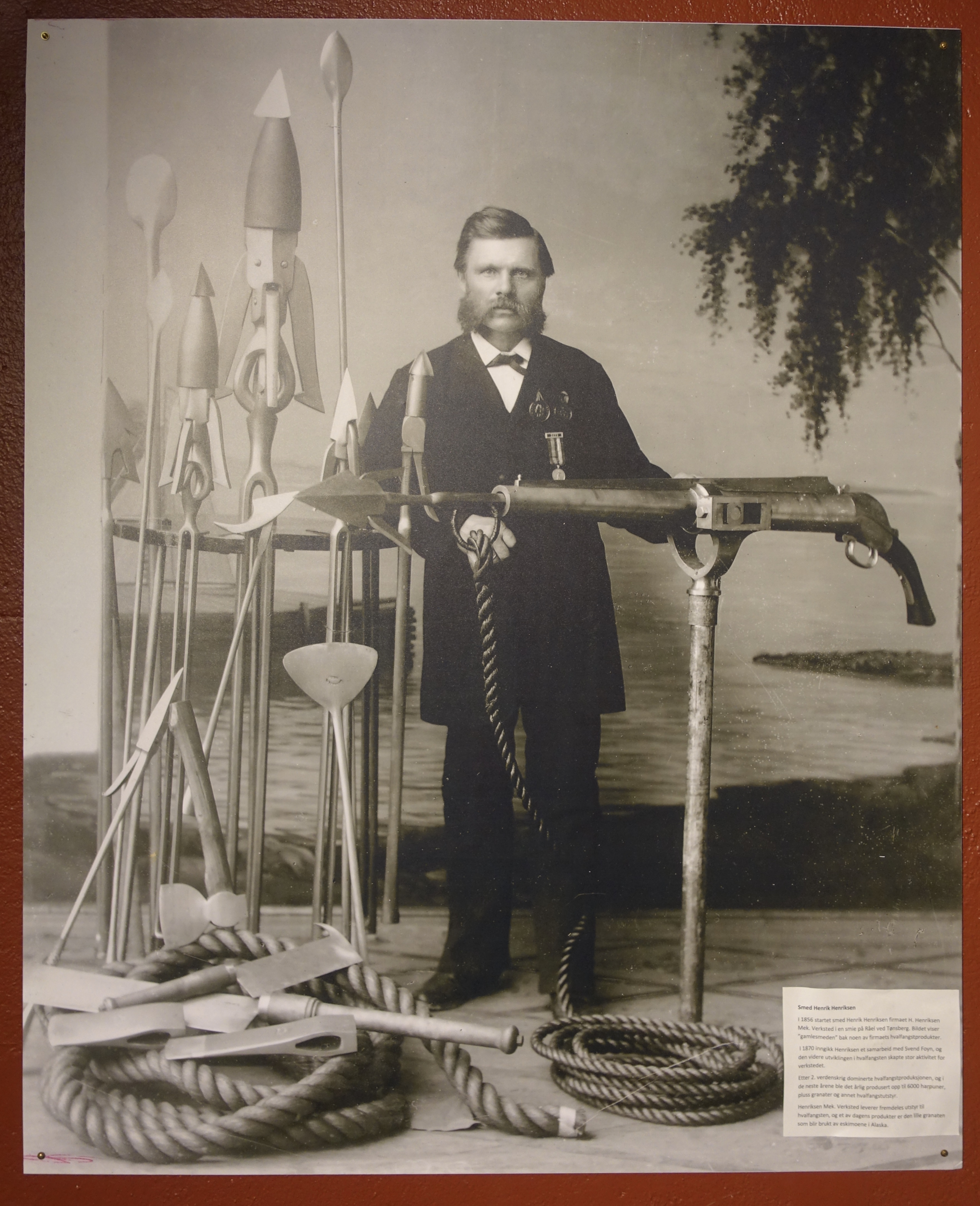 The smith Henrik Henriksen (1834–1916) posing with harpoon cannons and other whaling tools. From the exhibition on Svend Foyn (1809–1894), a Norwegian whaling pioneer introducing the modern harpoon cannon in 1870, at the Slottsfjellsmuseet, a local history museum in Tønsberg in Vestfold og Telemark County, Norway. Photo taken on January 21st, 2020.